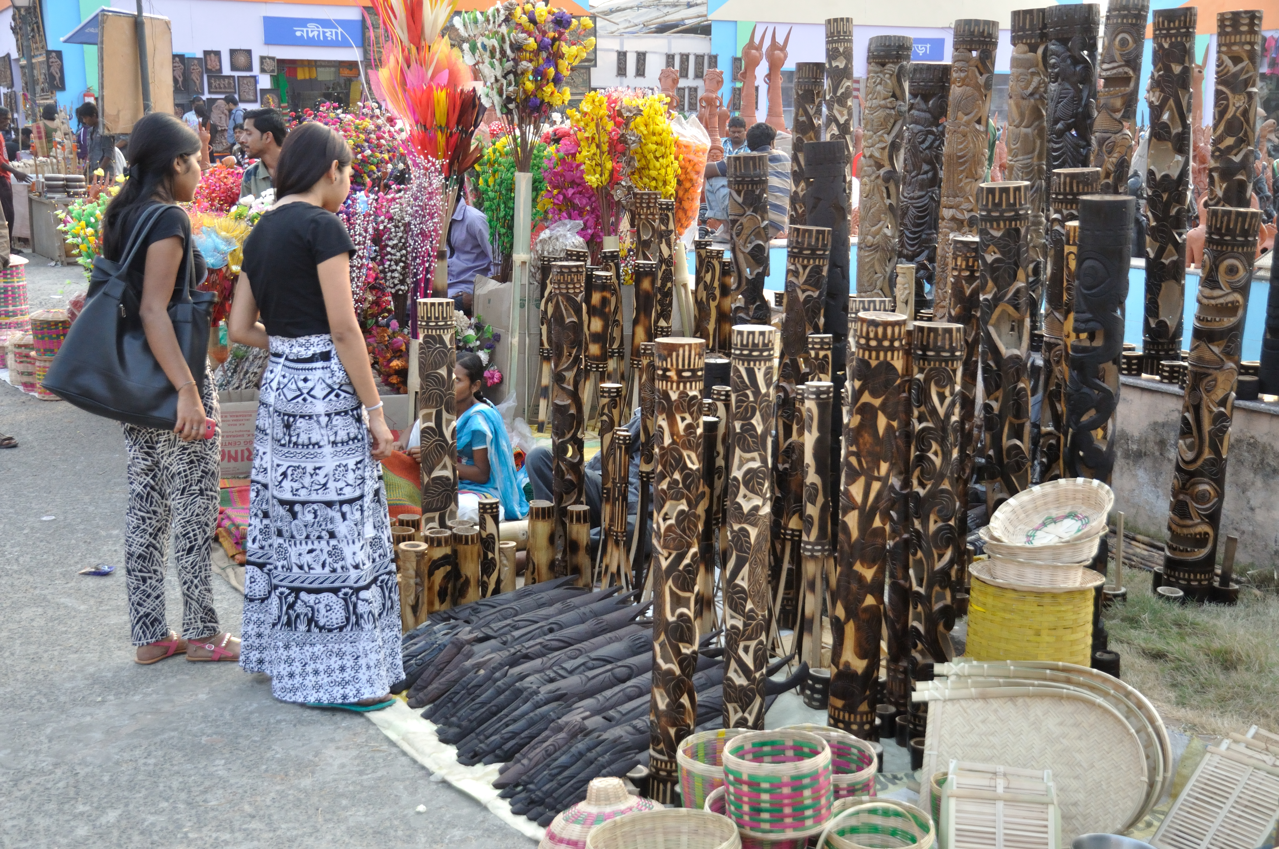 Photographed during the '22nd West Bengal State Handicraft Expo 2014' on Milan Mela Complex in Kolkata.